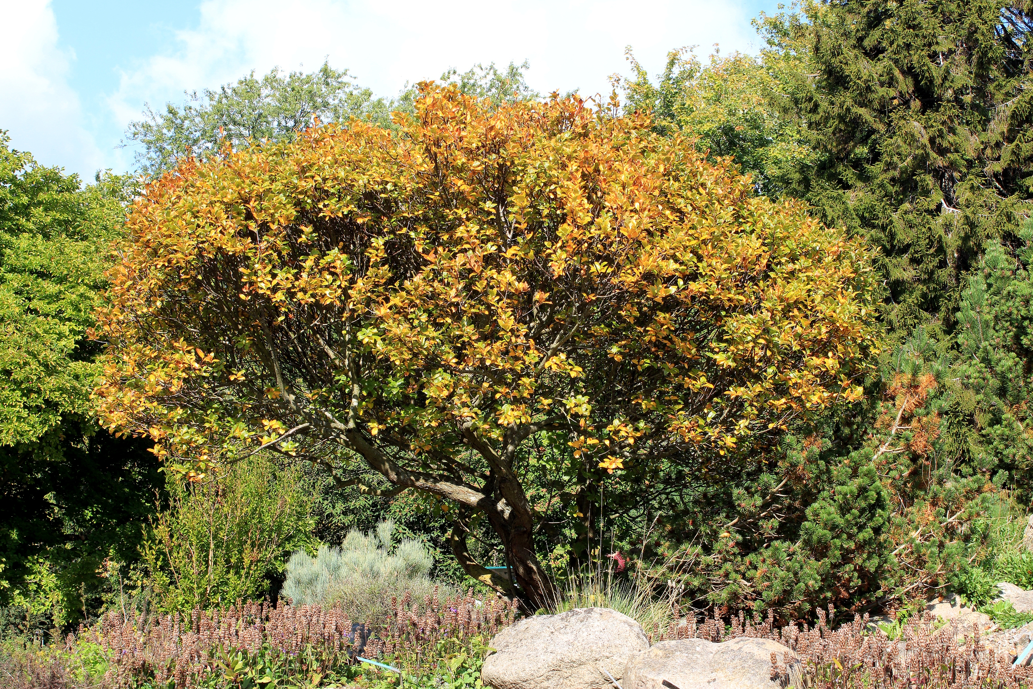 Sorbus chamaemespilus showing typical habitus and autumn colours.